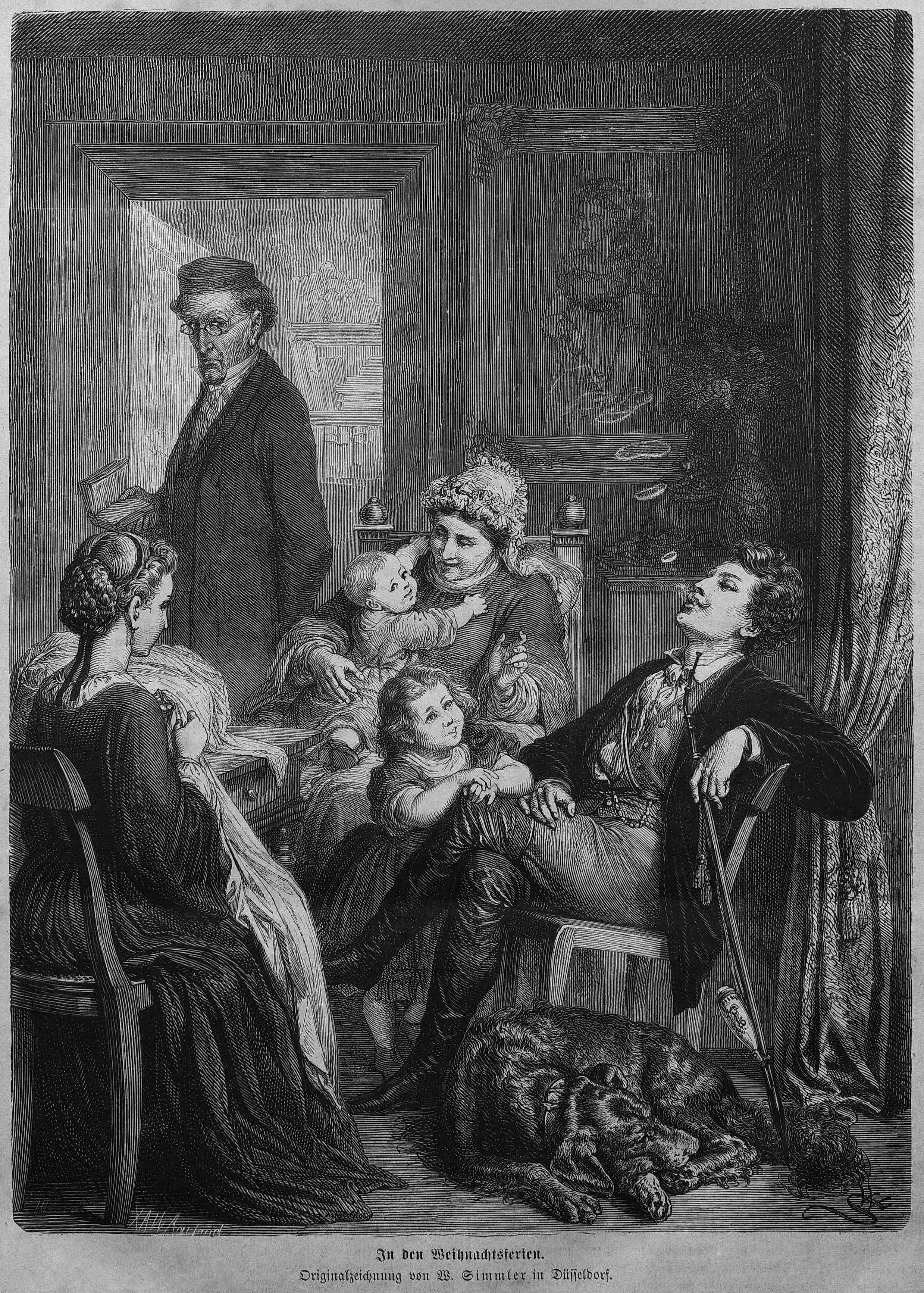 caption: "In den Weihnachtsferien. Originalzeichnung von W. Simmler in Düsseldorf."